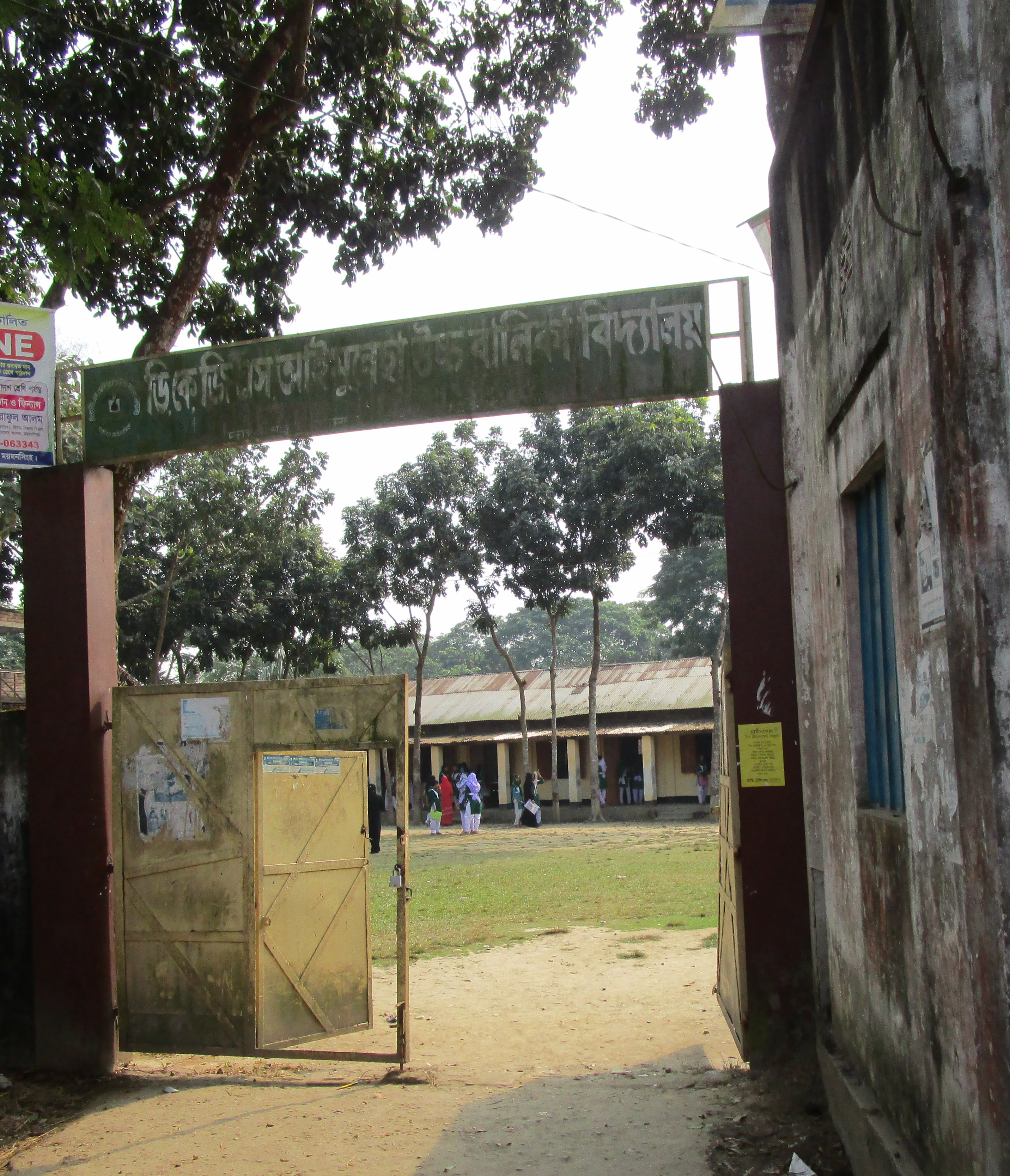 DKGS Imunnesa Girls High School at Dapunia union, Mymensingh Sadar Upazila.